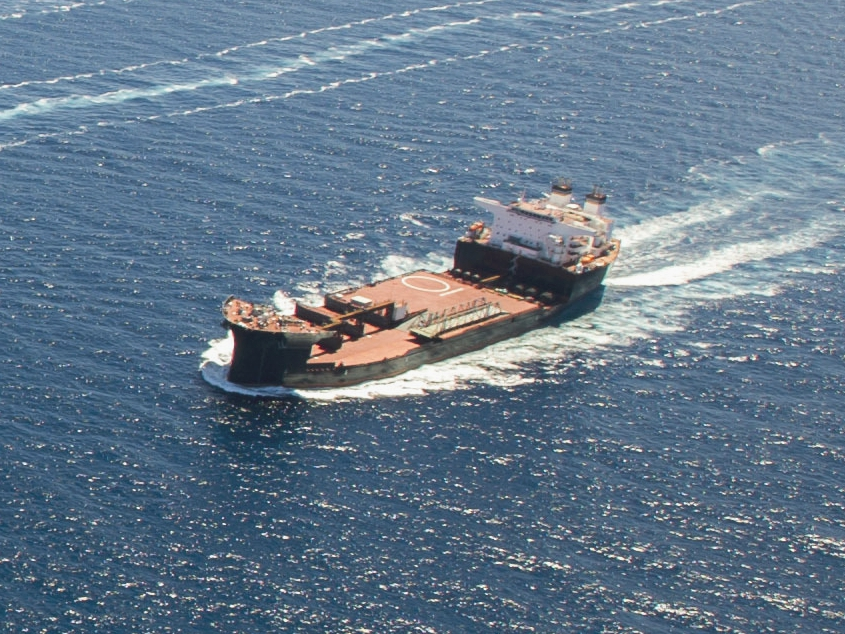 The U.S. Military Sealift Command mobile landing platform USNS Montford Point (T-MLP-1) transits off the coast of Southern California as part of a photo exercise for the Rim of the Pacific (RIMPAC) Exercise 2014.